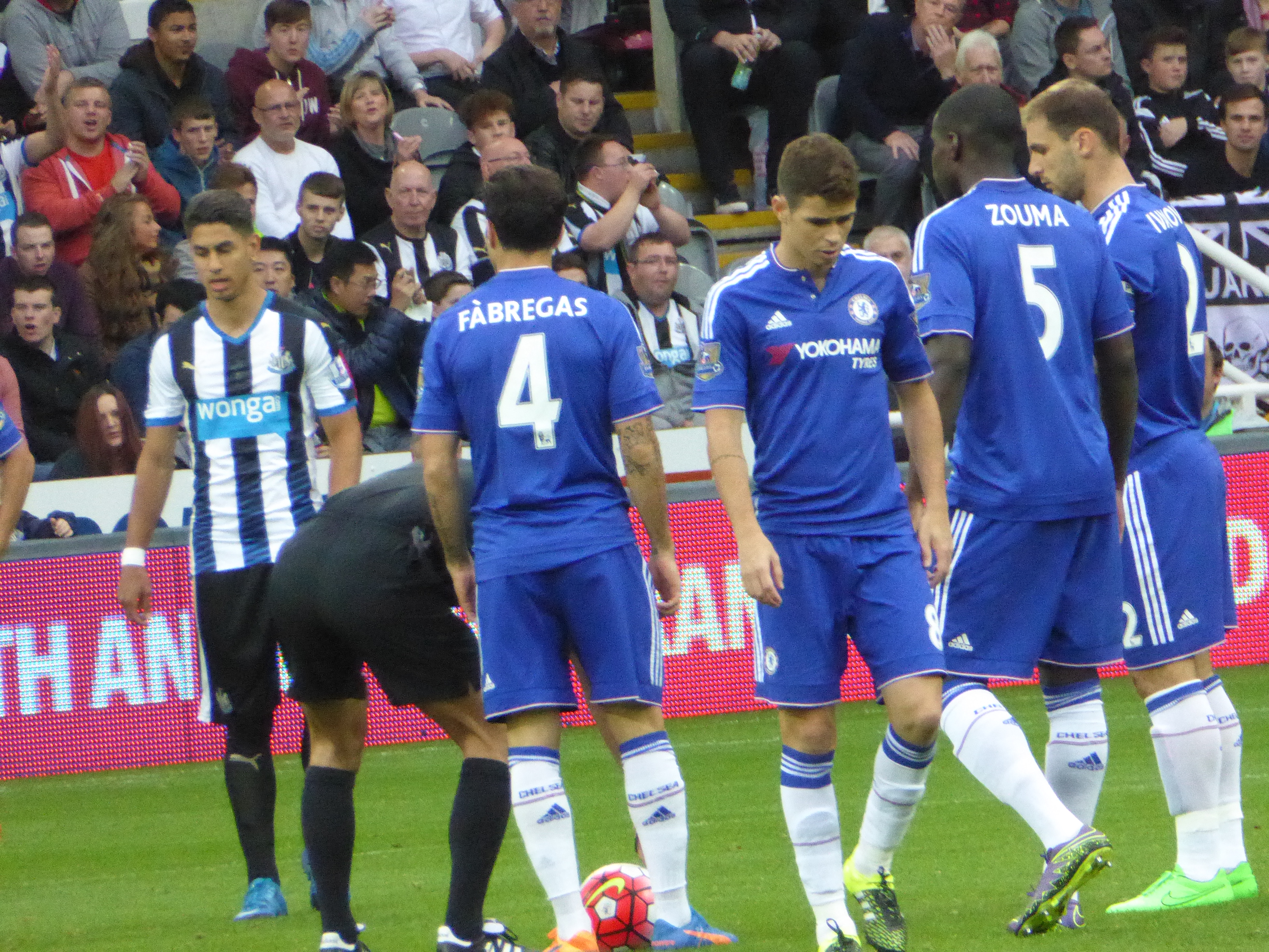 Newcastle United vs Chelsea (2-2), Barclays Premier League, St James' Park, Newcastle upon Tyne, Tyne and Wear, England, September 2015